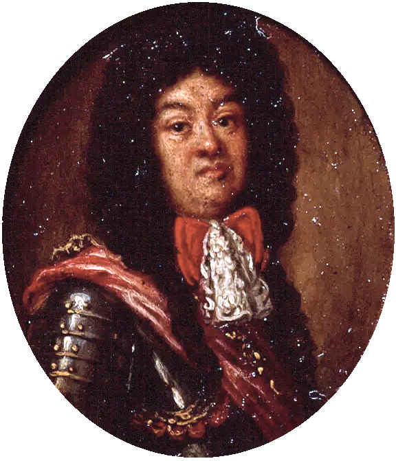 Portrait of Alexander Farnese, Prince of Parma (1635-1689)